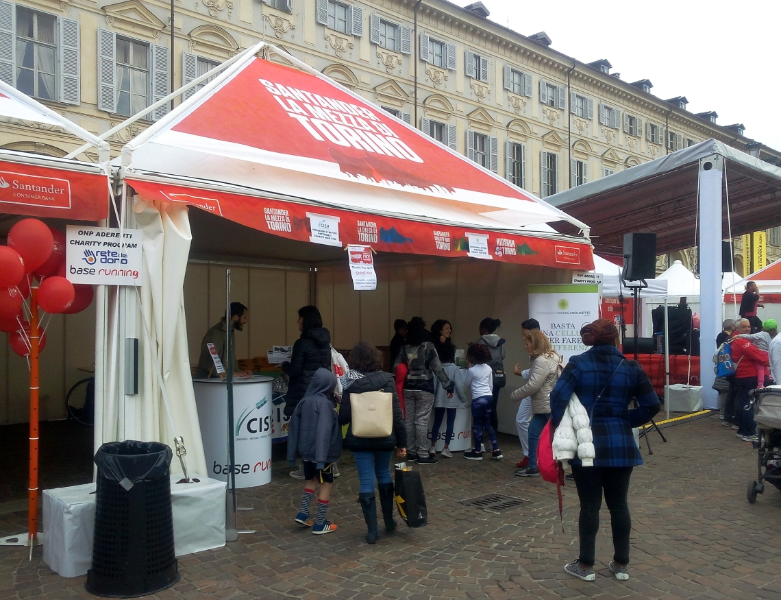 Santander La Mezza di Torino, 2017 venue: CISV stand